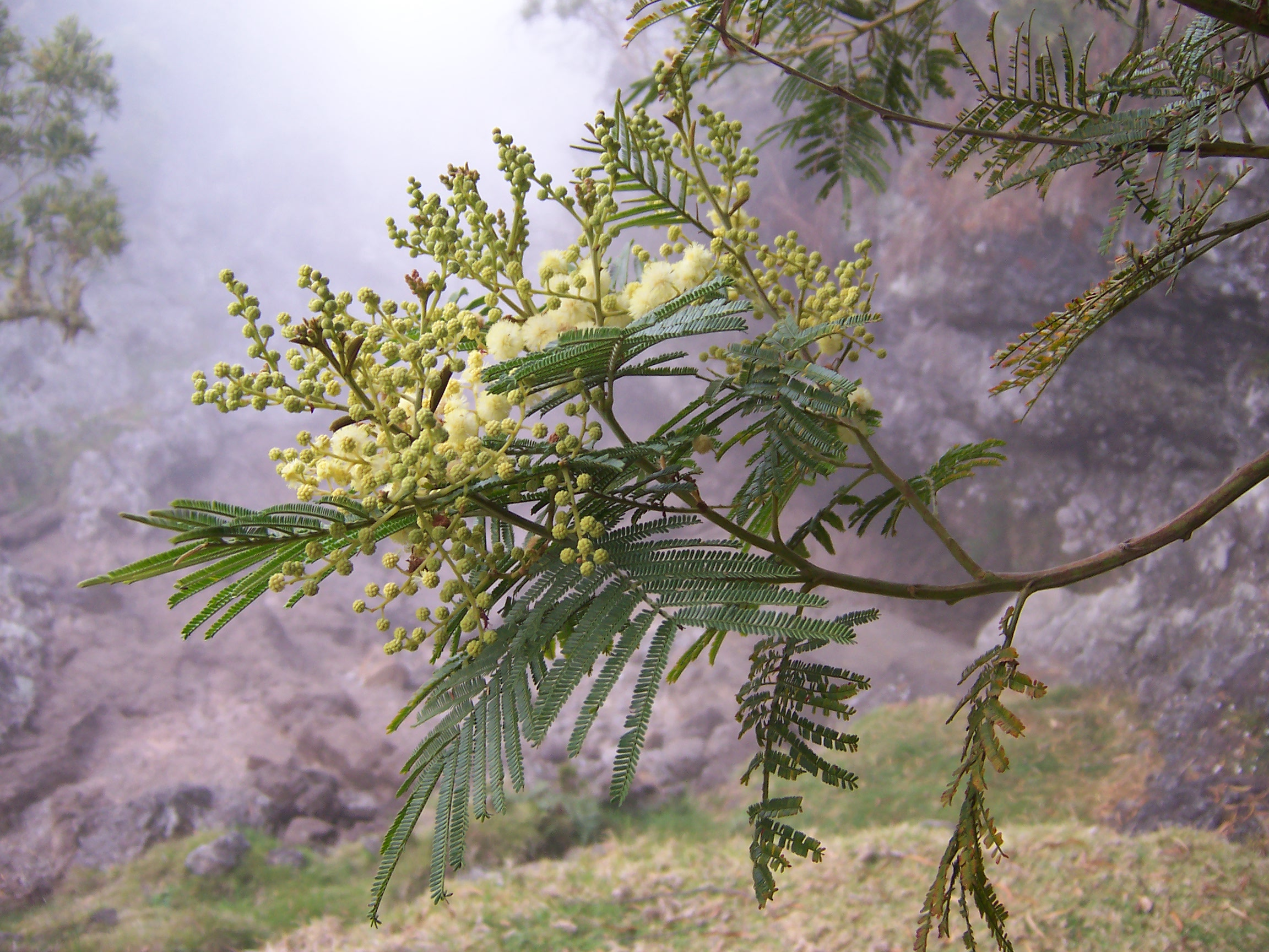 flowers of Acacia mearnsii (taken in "forêt des Hauts-sous-le-Vent, Réunion island)